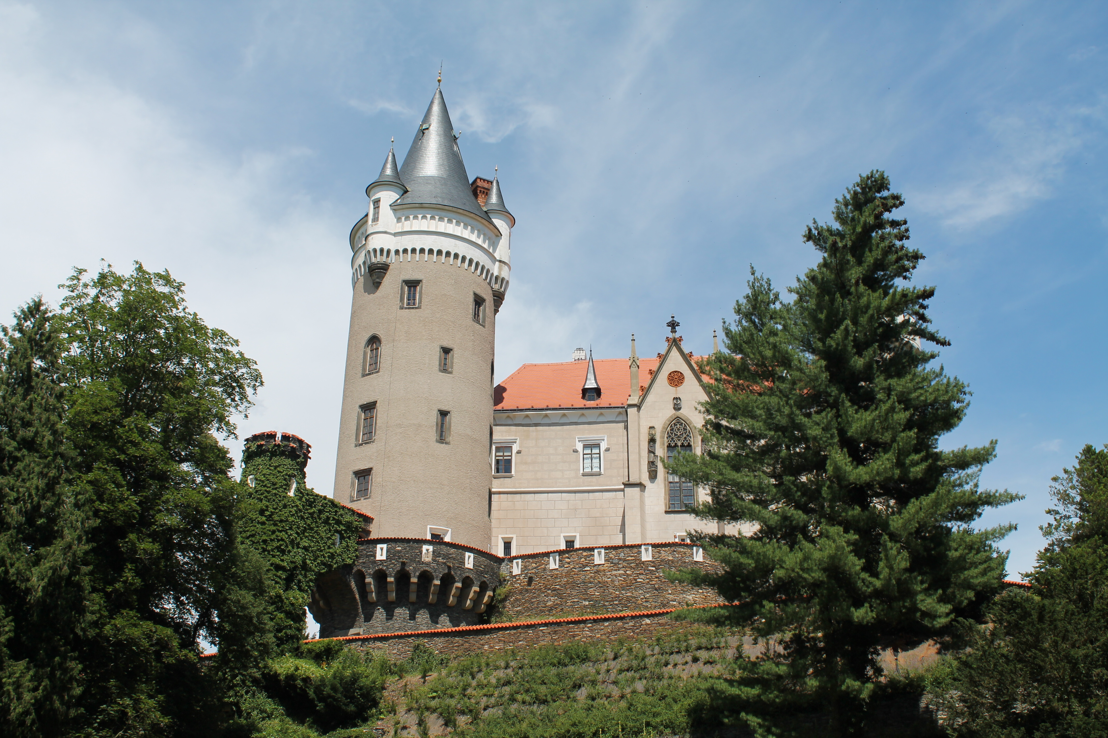 Žleby Castle, Kutná Hora District, Czech Republic